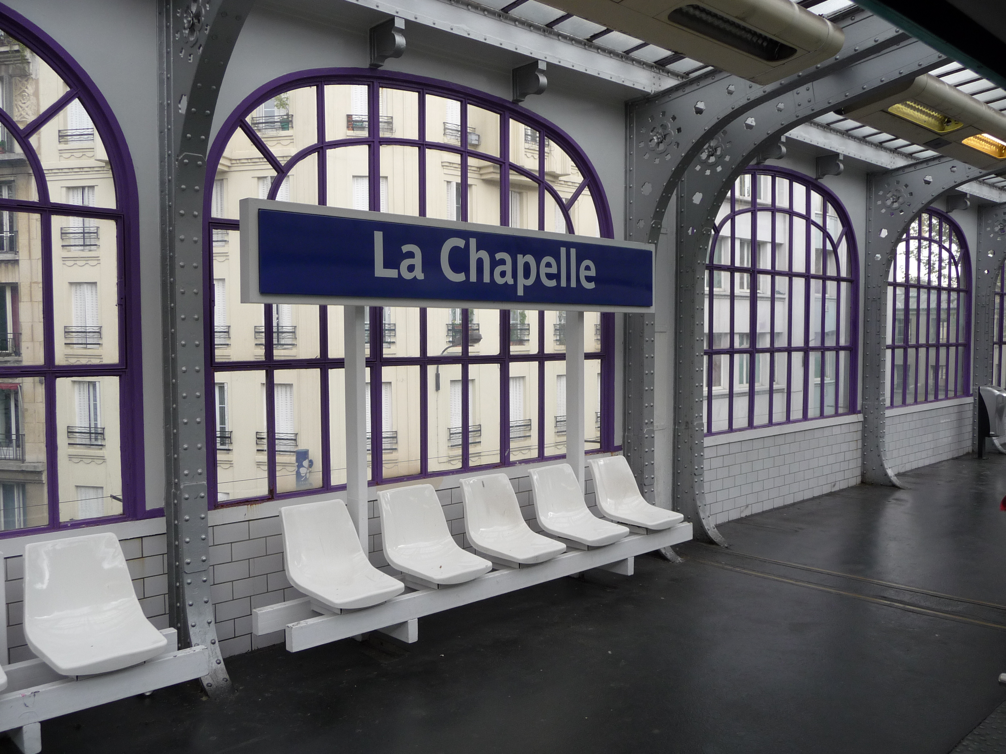 La Chapelle metro station, Paris, France